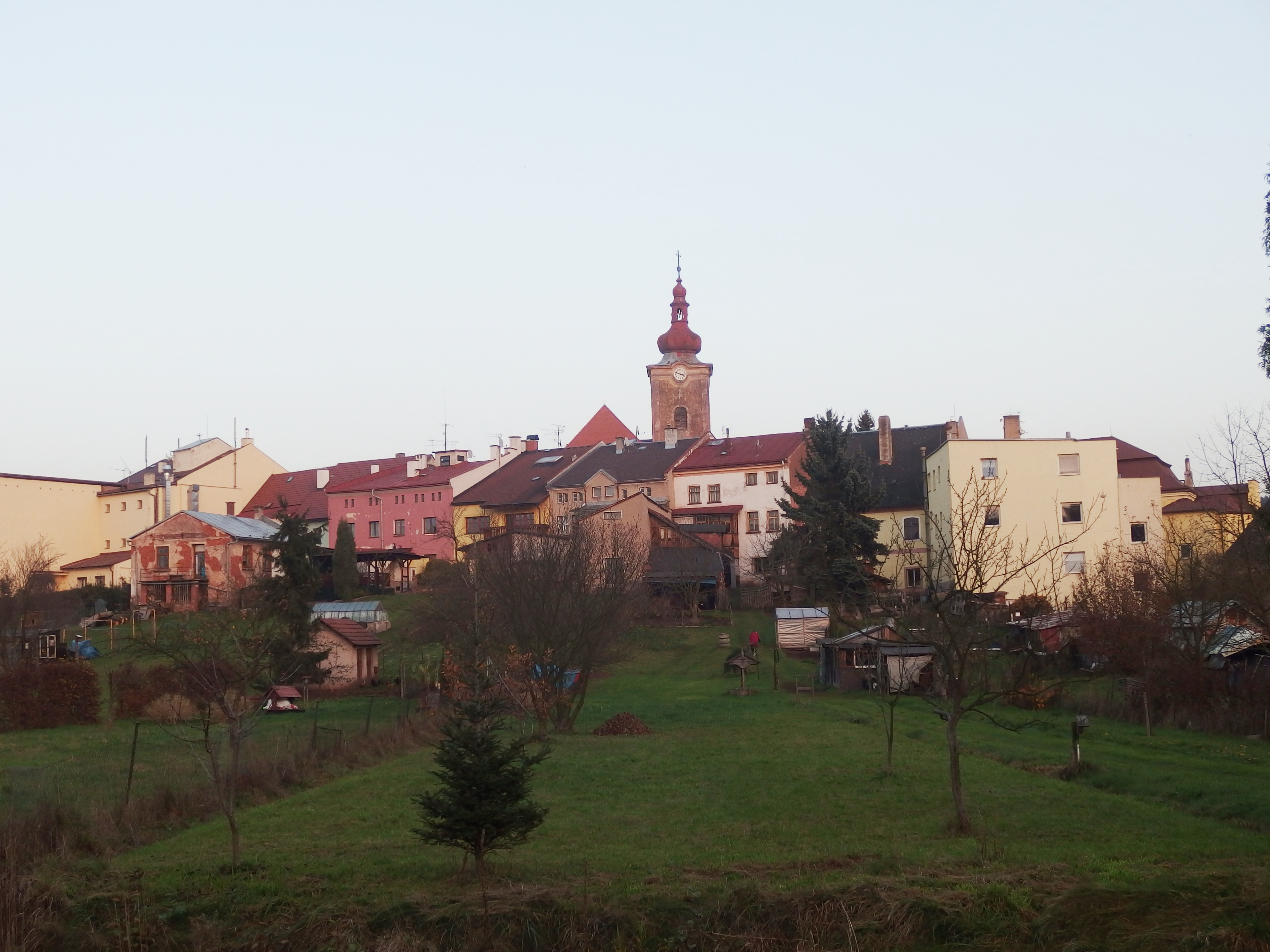 Pilníkov, Trutnov District, Czech Republic.